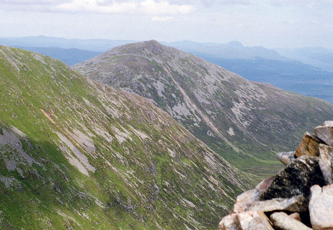 Personal picture taken by Mick Knapton